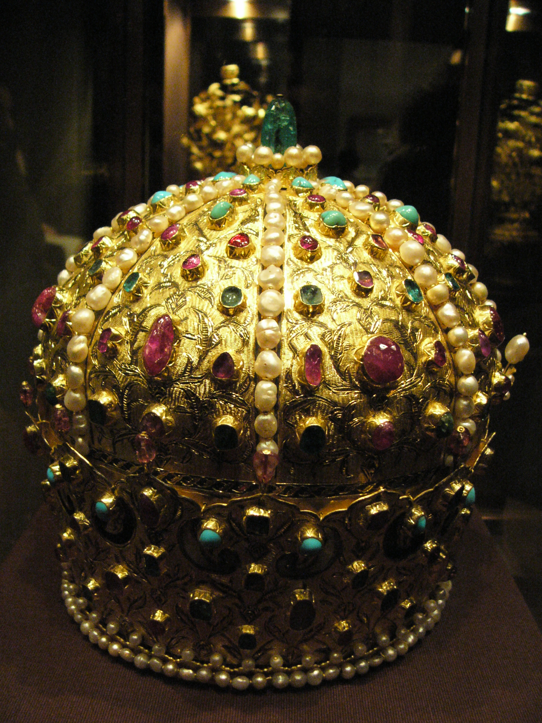 crown of Stephen Bocskay in Schatzkammer in Wien (Austria). Crown was made in 1605 in Turkey. It is golden, with gems, perls, and with silk.